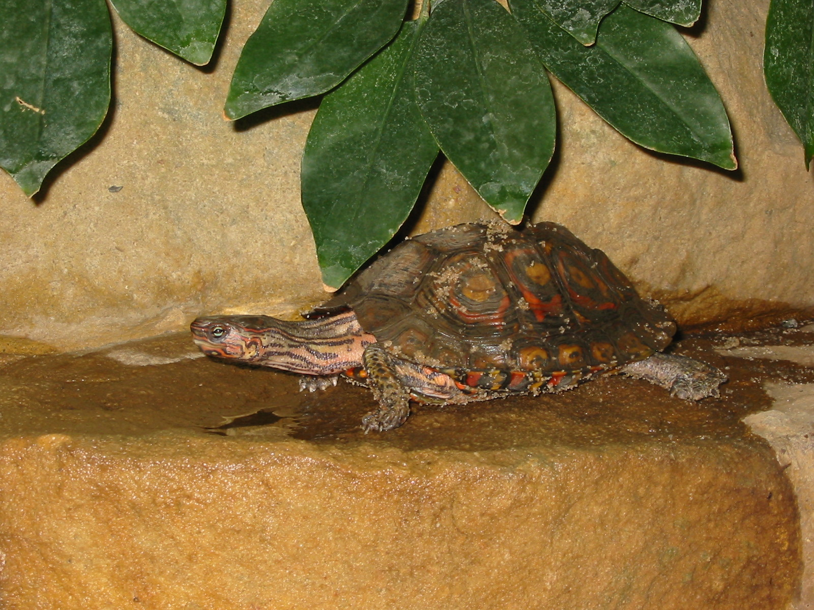 Turtle, Rhinoclemmys pulcherrima manni, Zoo Berlin, Germany